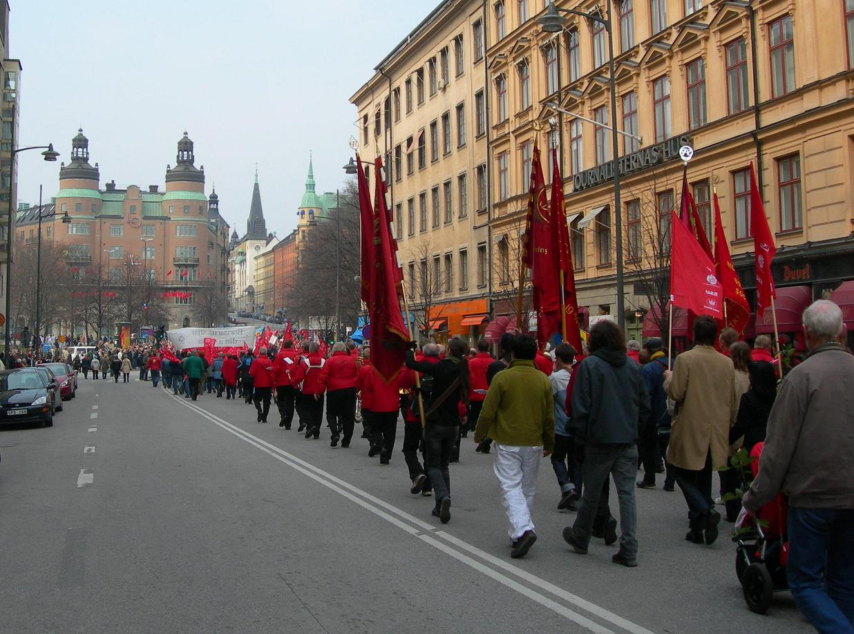 May Day demonstration, Stockholm, Sweden 2006. Socialdemokratiska arbetarepartiet (The Social Democratic Workers Party) march through Stockholm towards Norra Bantorget.